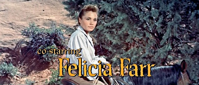 This image is a screenshot from a public domain trailer for the 1956 film, The Last Wagon . Trailers for movies released before 1964 are in the Public Domain because they were never separately copyrighted.